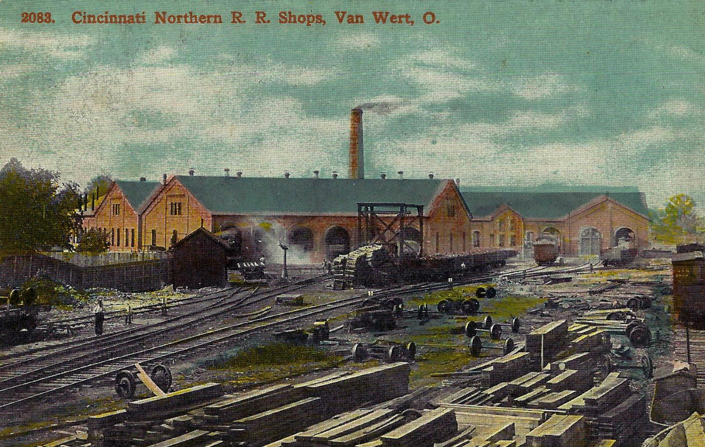 Postcard depiction of the shops of the Cincinnati Northern Railroad in Van Wert, Ohio.